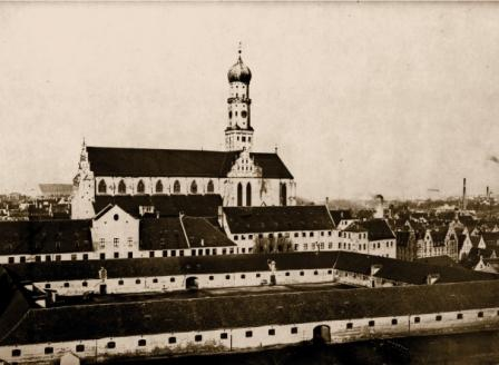 View of the abbey church and monastery complex of the former Imperial abbey of St. Ulrich and St. Afra in Augsburg c. 1900. By then, the complex served as army barracks. Most of it was destroyed during the 20th century. Undated photograph.